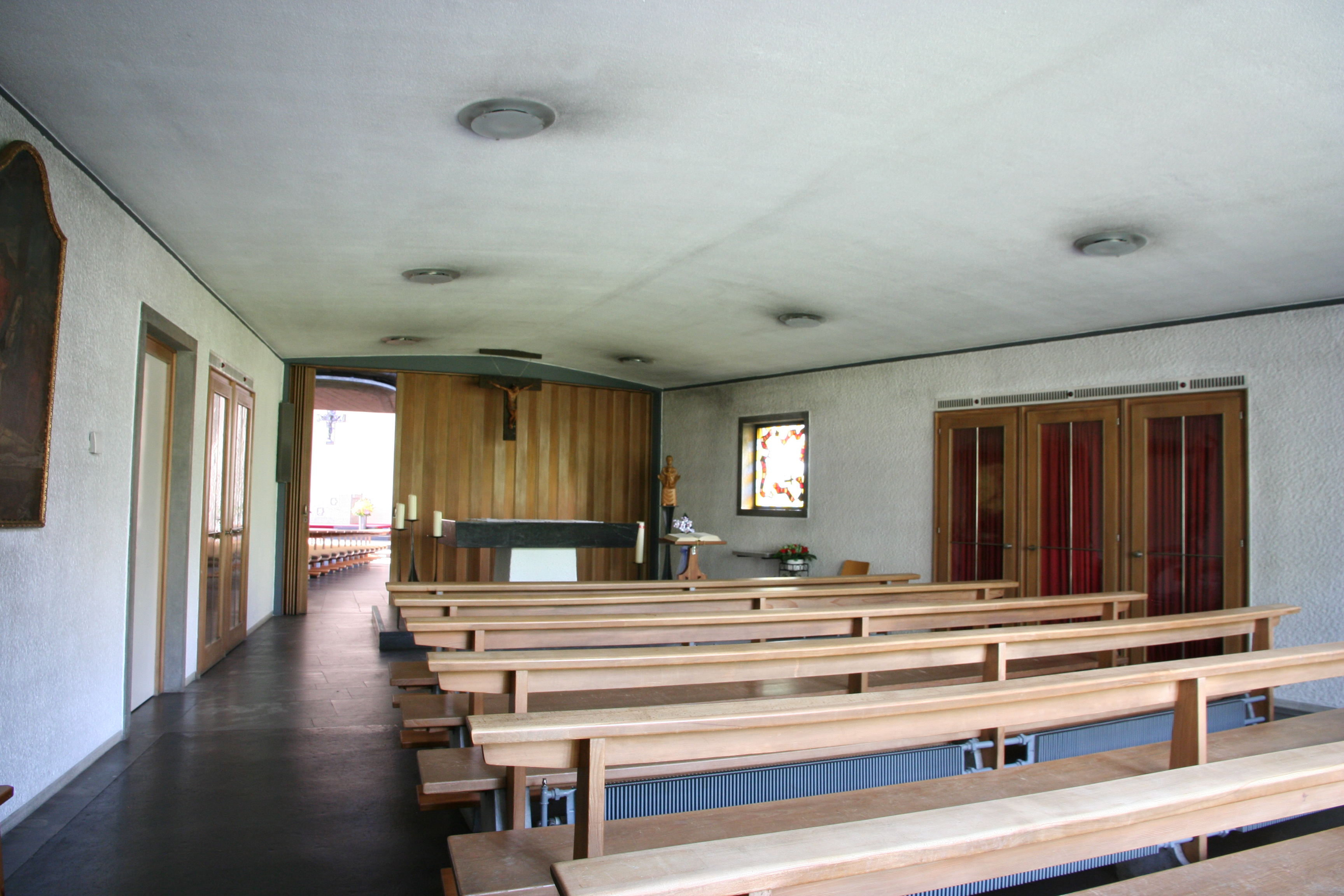 Church Bruder Klaus Gerlafingen, Switzerland